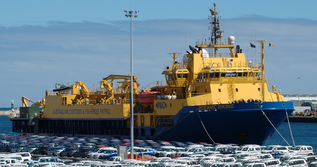 Australian Customs Service patrol ship "Oceanic Viking" - Fremantle, Western Australia. IMO Number: 9126584 MMSI Number: 503483000 Callsign: VNTG Length: 105 m Beam: 22 m